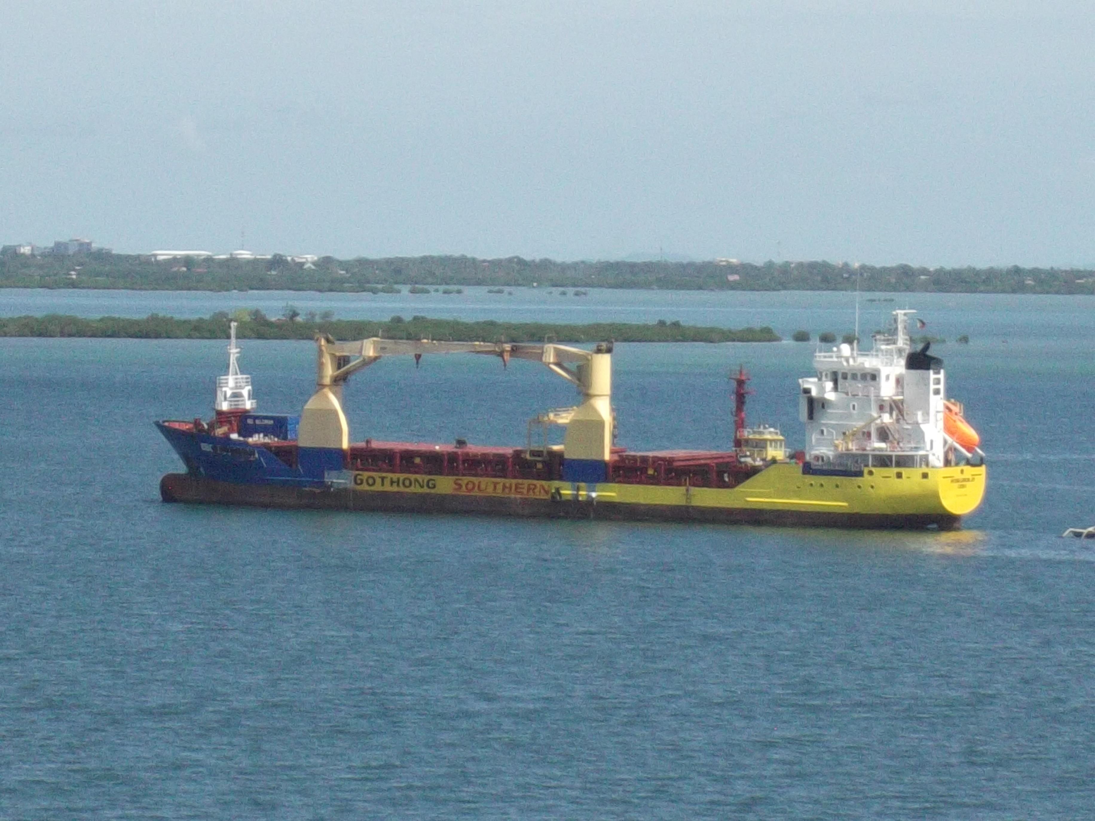 MV Doña Caroline Joy, a BBC Bureau Veritas Class ship by Gothong Southern Shipping Lines. Anchored on waters off the coast of Cebu City.